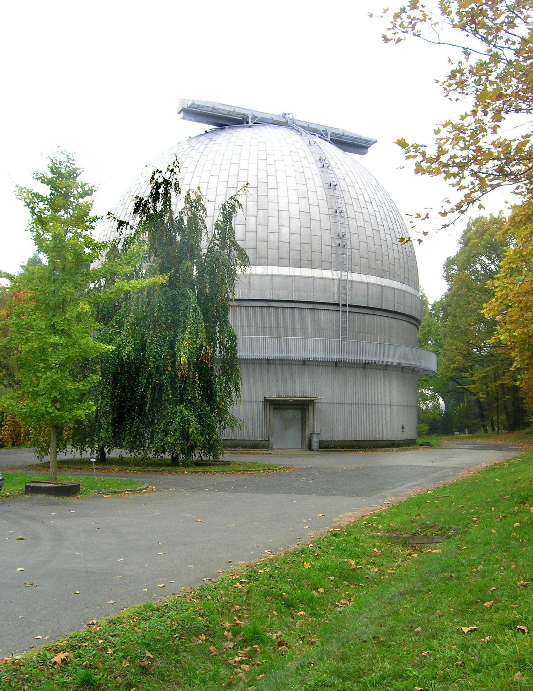 Dome of 2-m reflector at the Czech Astronomical Institute in Ondřejov